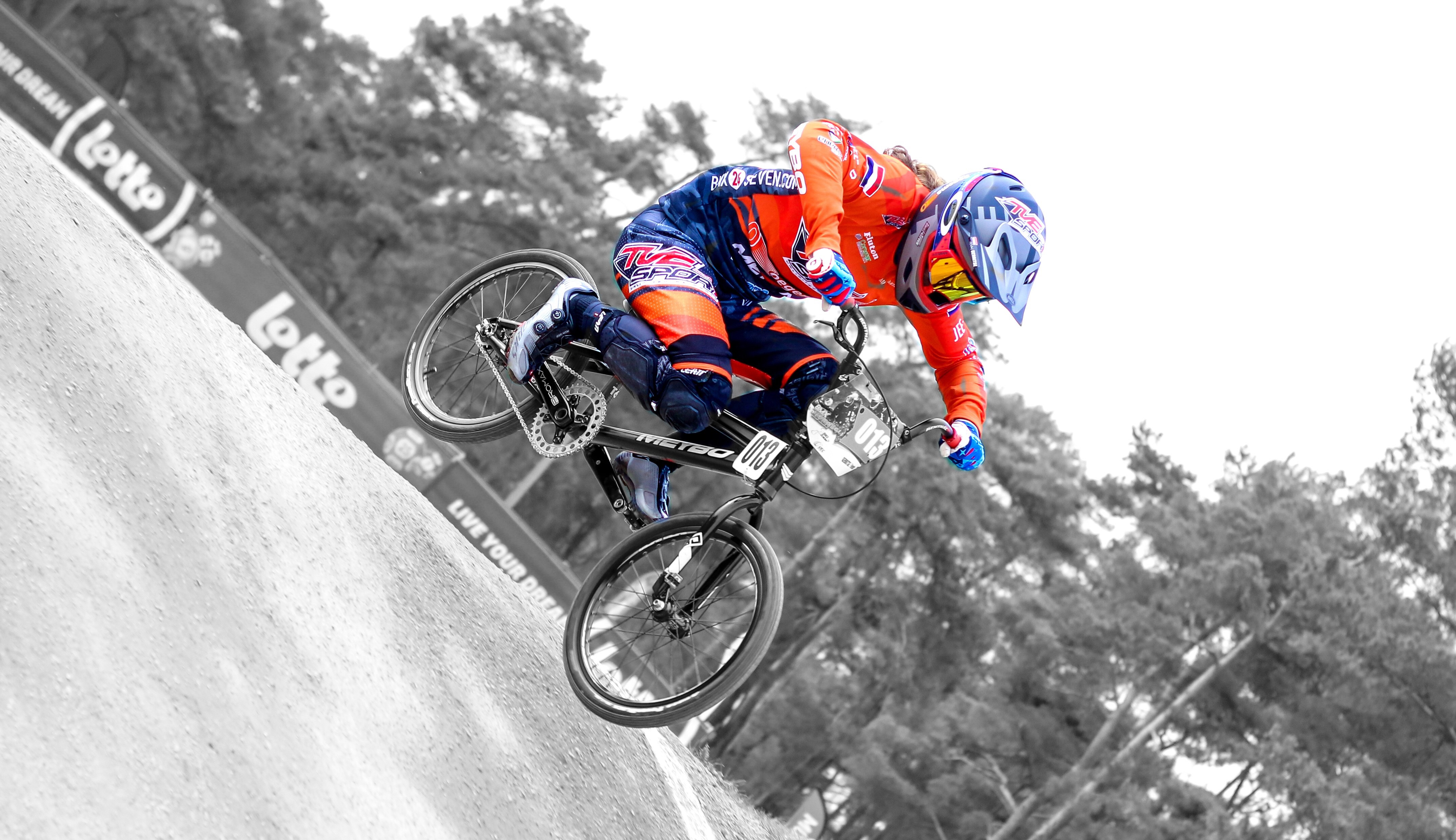 Femke BMX Zolder